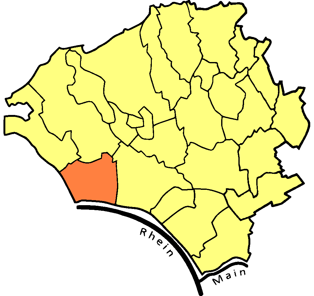 Map of Wiesbaden showing the location of Schierstein